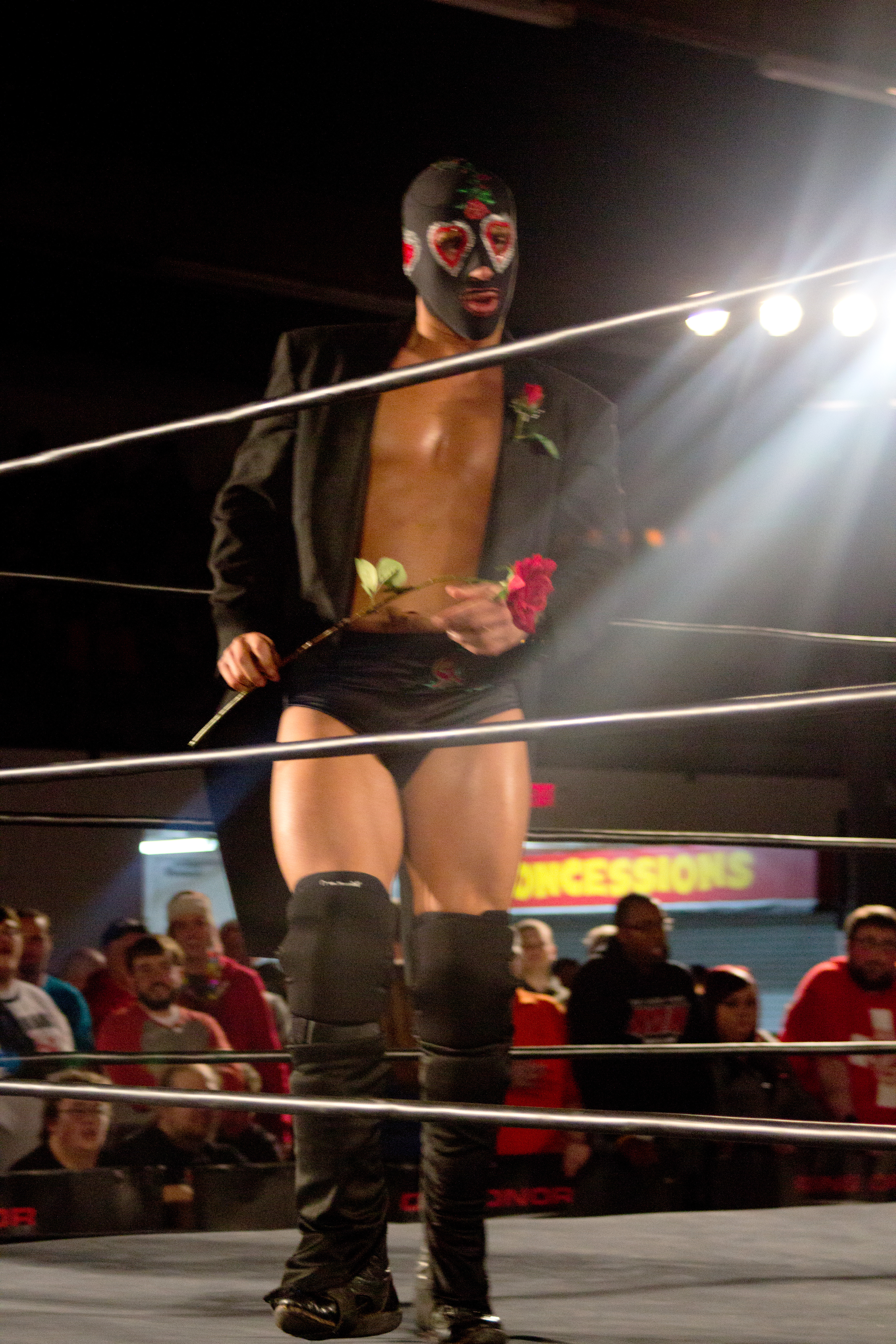 The Romantic Touch in the ring at the first ROH show in Nashville, TN, in January 2014. Auto-contrasted and lightened.